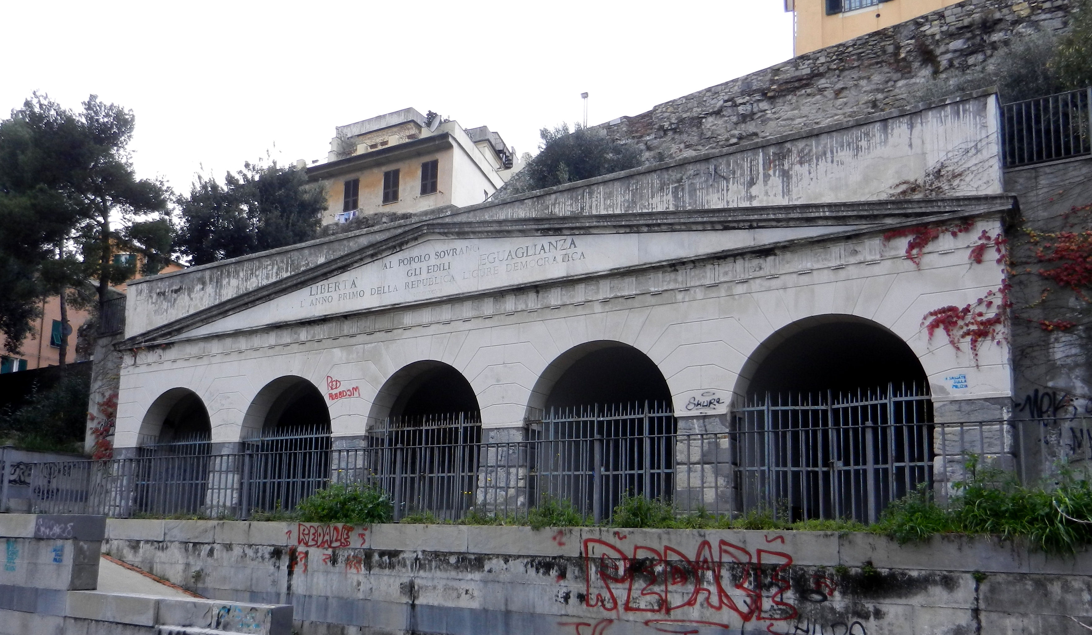 Genoa, Italy, quarter of Carignano, historical public laundry